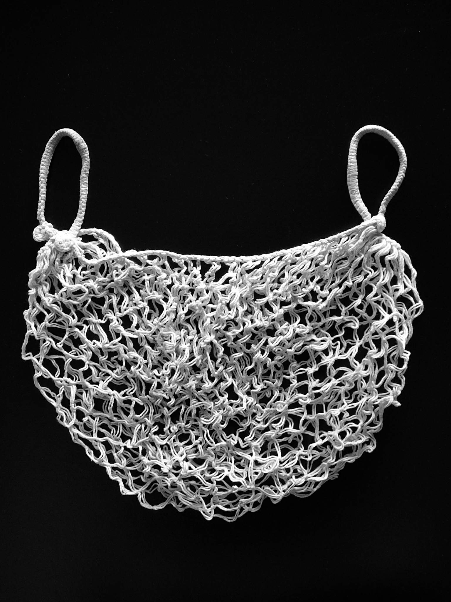 The netbag from Žďár nad Sázavou.